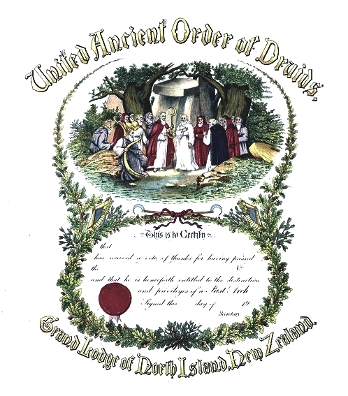 uaod certificate circa 1920 for New Zealand